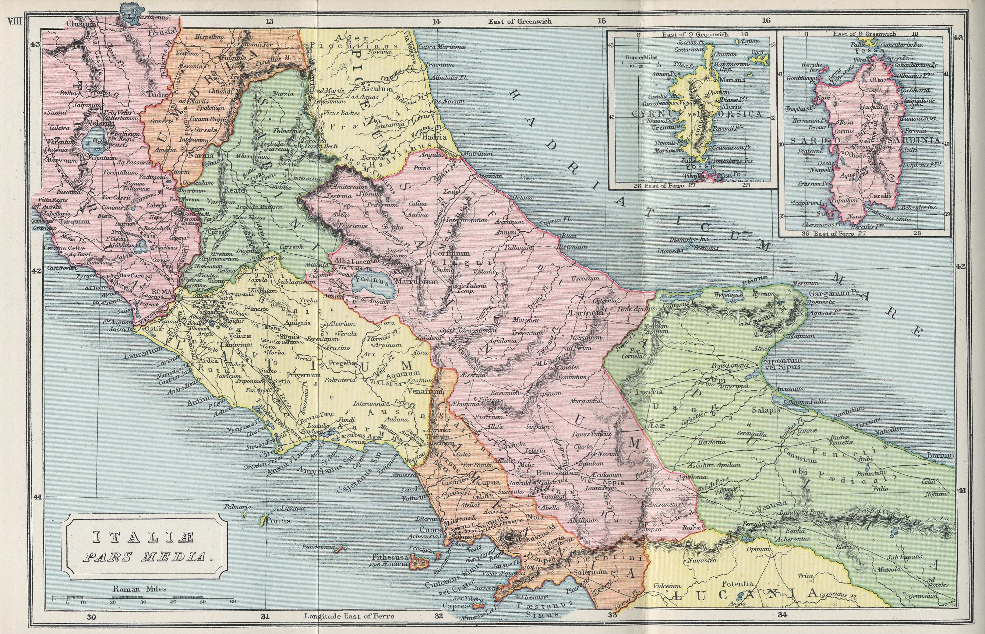 The Atlas of Ancient and Classical Geography by Samuel Butler